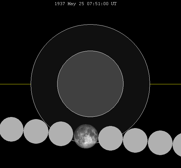 Lunar eclipse chart of moon's path through the earth's shadow. thumb